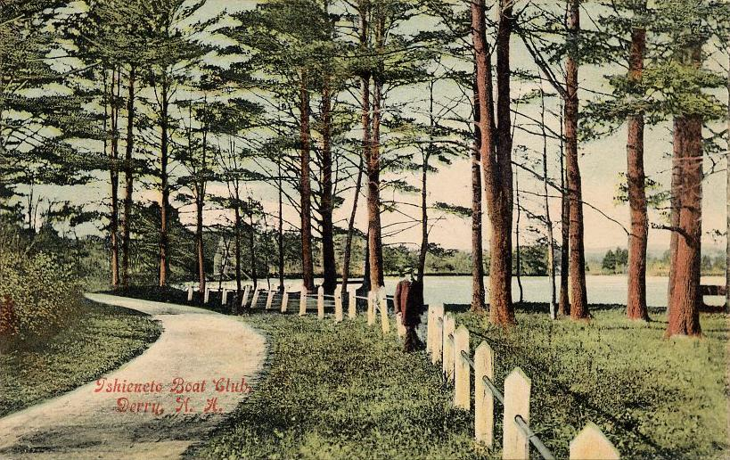 Tshieneto Boat Club, Derry, New Hampshire; from a c. 1910 postcard.